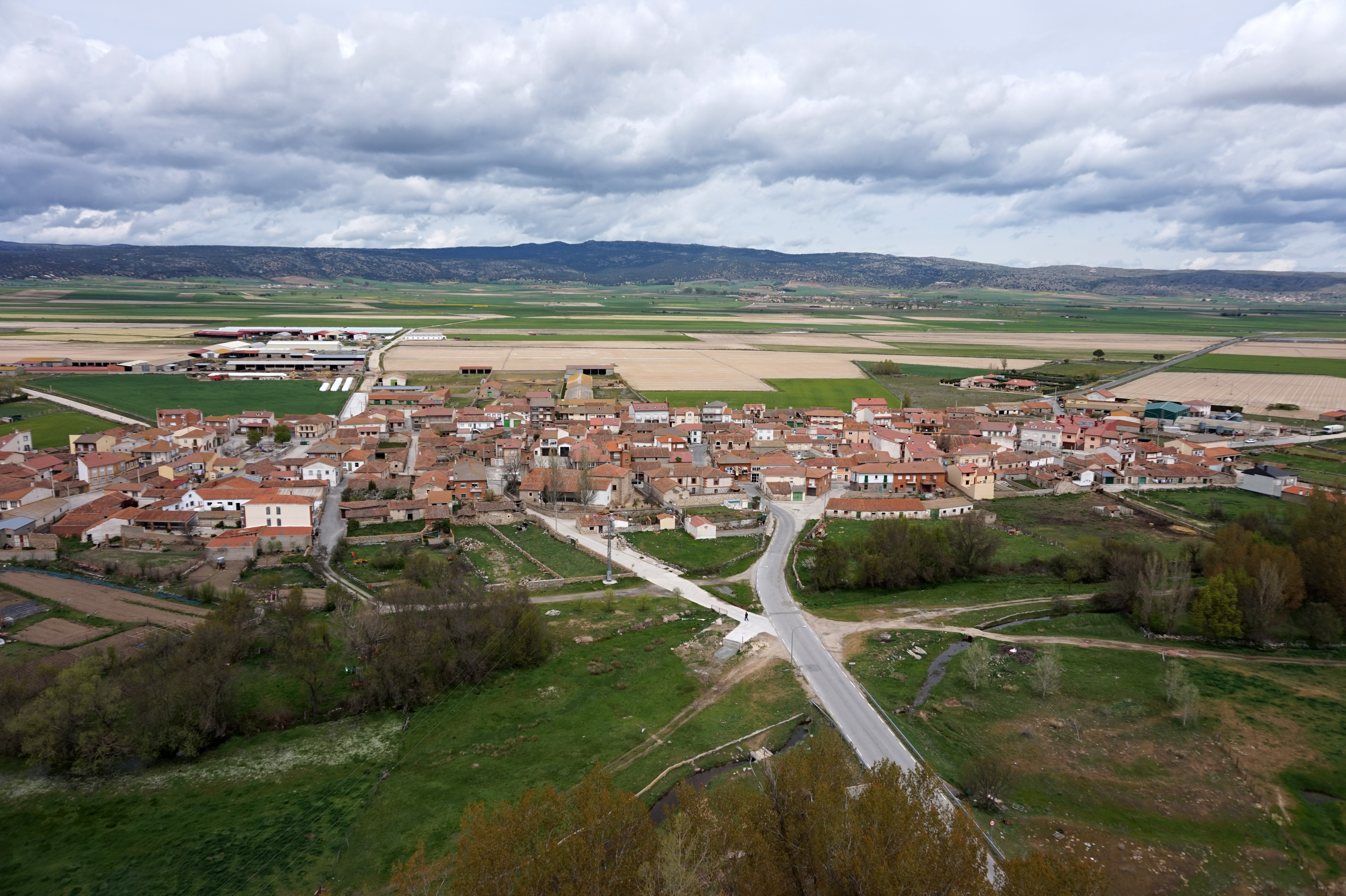 Aerial view of Niharra (Ávila, Spain). Photo taken by Smart Drone with a drone.